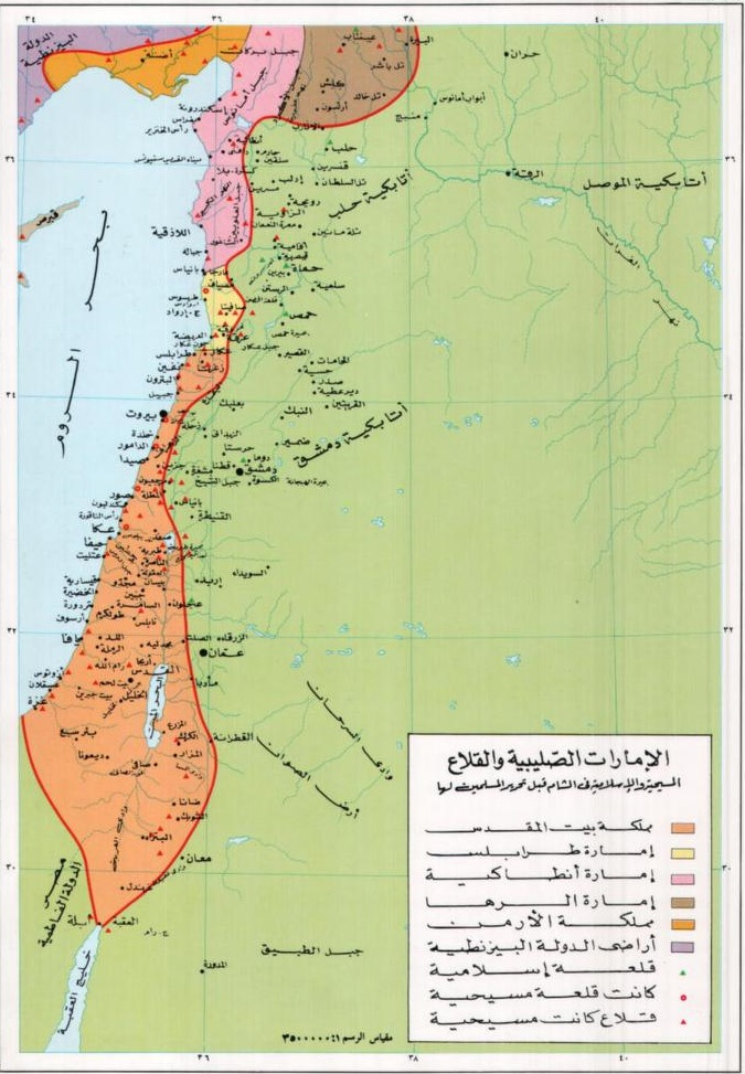 Map showing the Latin Kingdom of Jerusalem and its nearby crusader states and Atabegs of the Levant and Mosul.